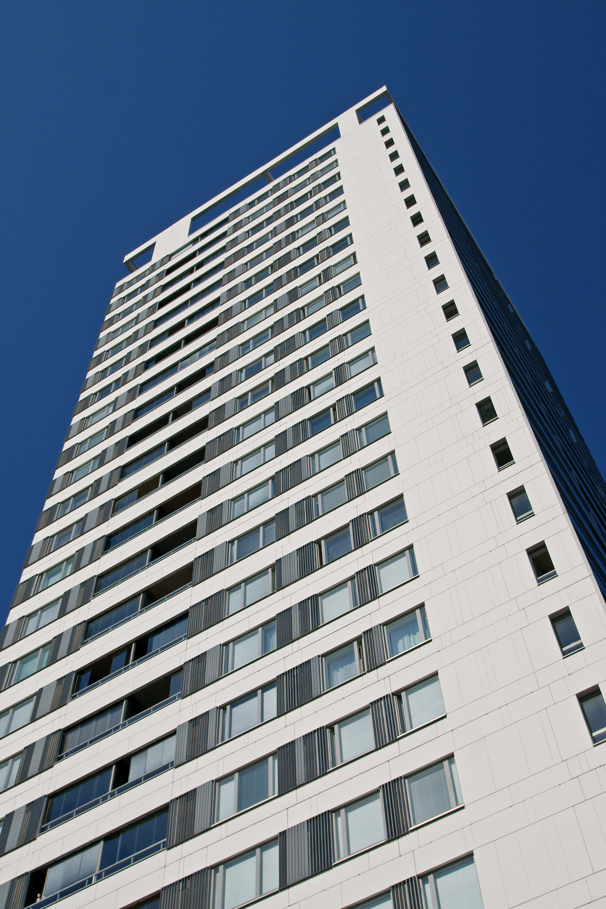 Cirrus in 2010.